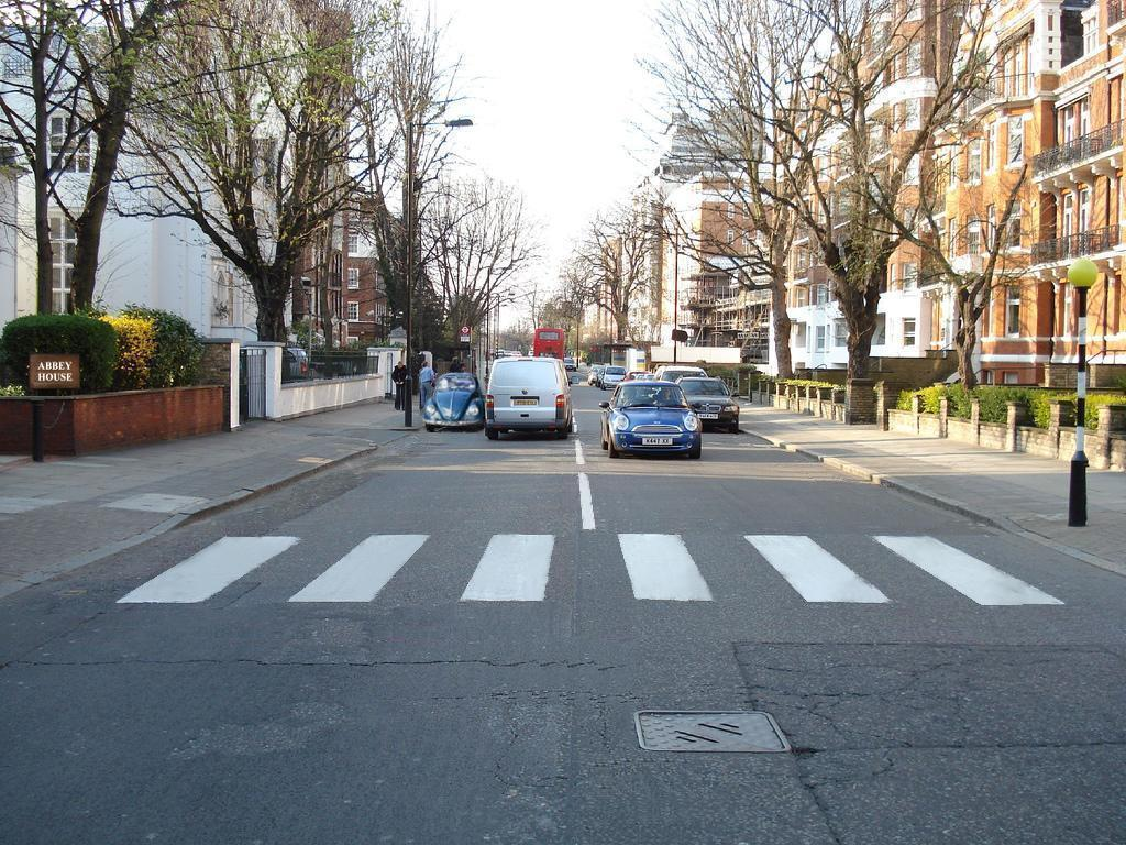 31 March 2007, photograph of Abbey Road from Wikimedia Commons. Removed zigzag lines in road and added Volkswagen Beetle, by andreasegde